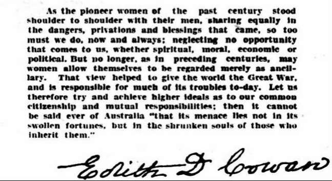 Signed letter to the people of Western Australia by Edith Cowan as part of the Western Australian Centenary Celebrations